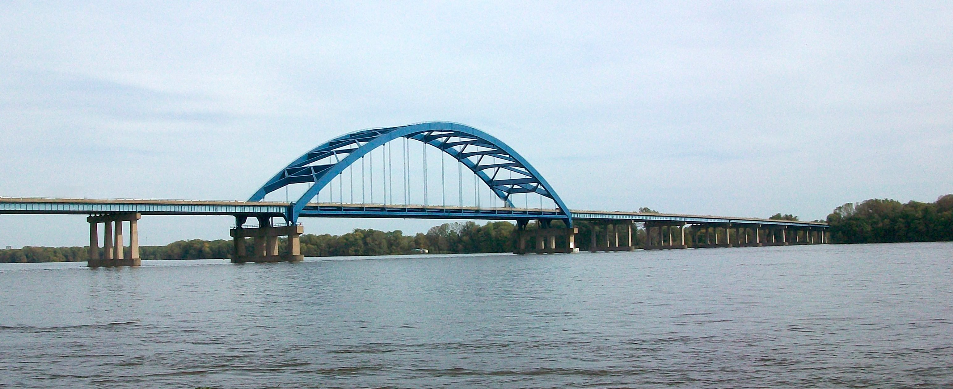 I-280 Bridge over the Mississippi River connecting Davenport, Iowa to Rock Island, Illinois